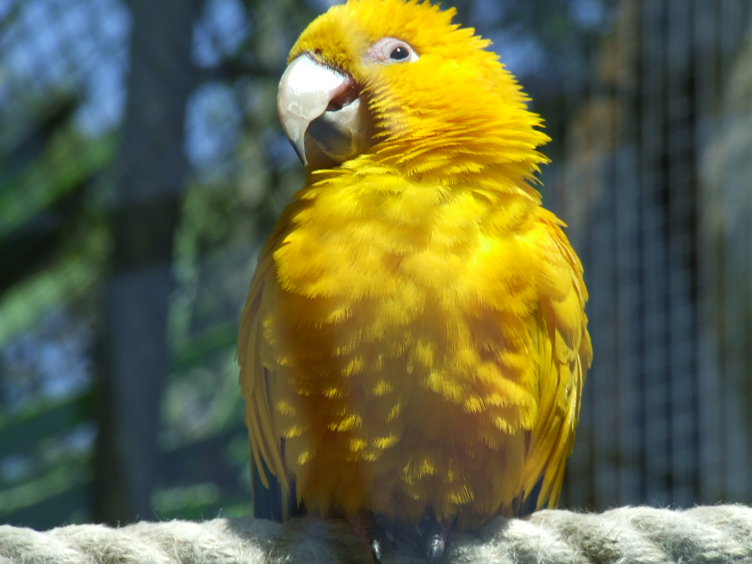 Golden Conure (Guaruba guarouba) at Barcelona Zoo (Spain, European Union).